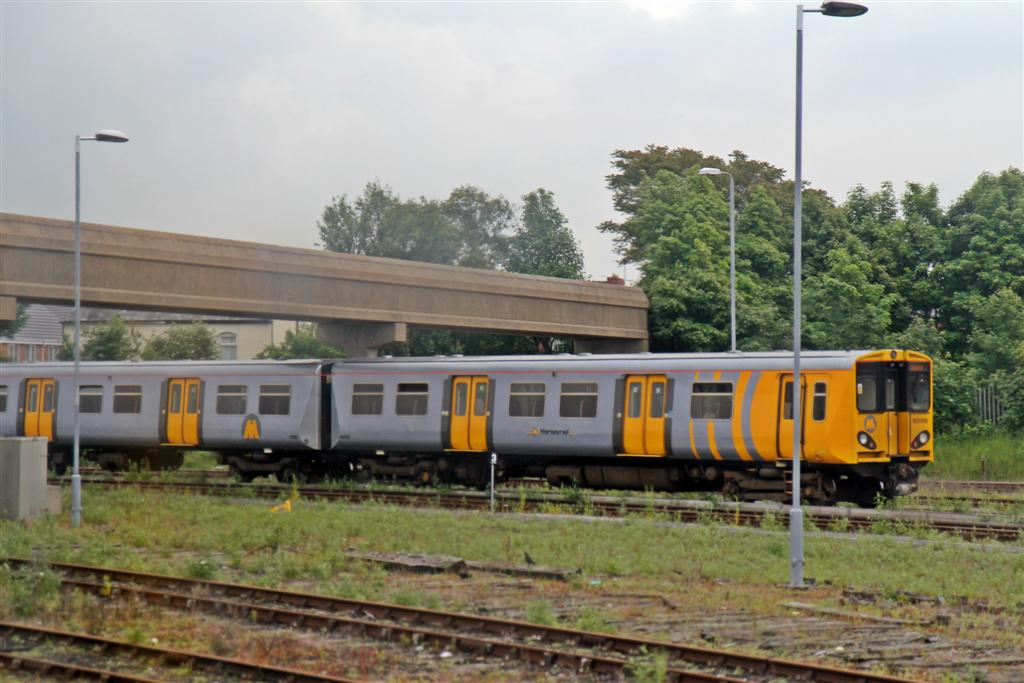 Southport Railway Yard